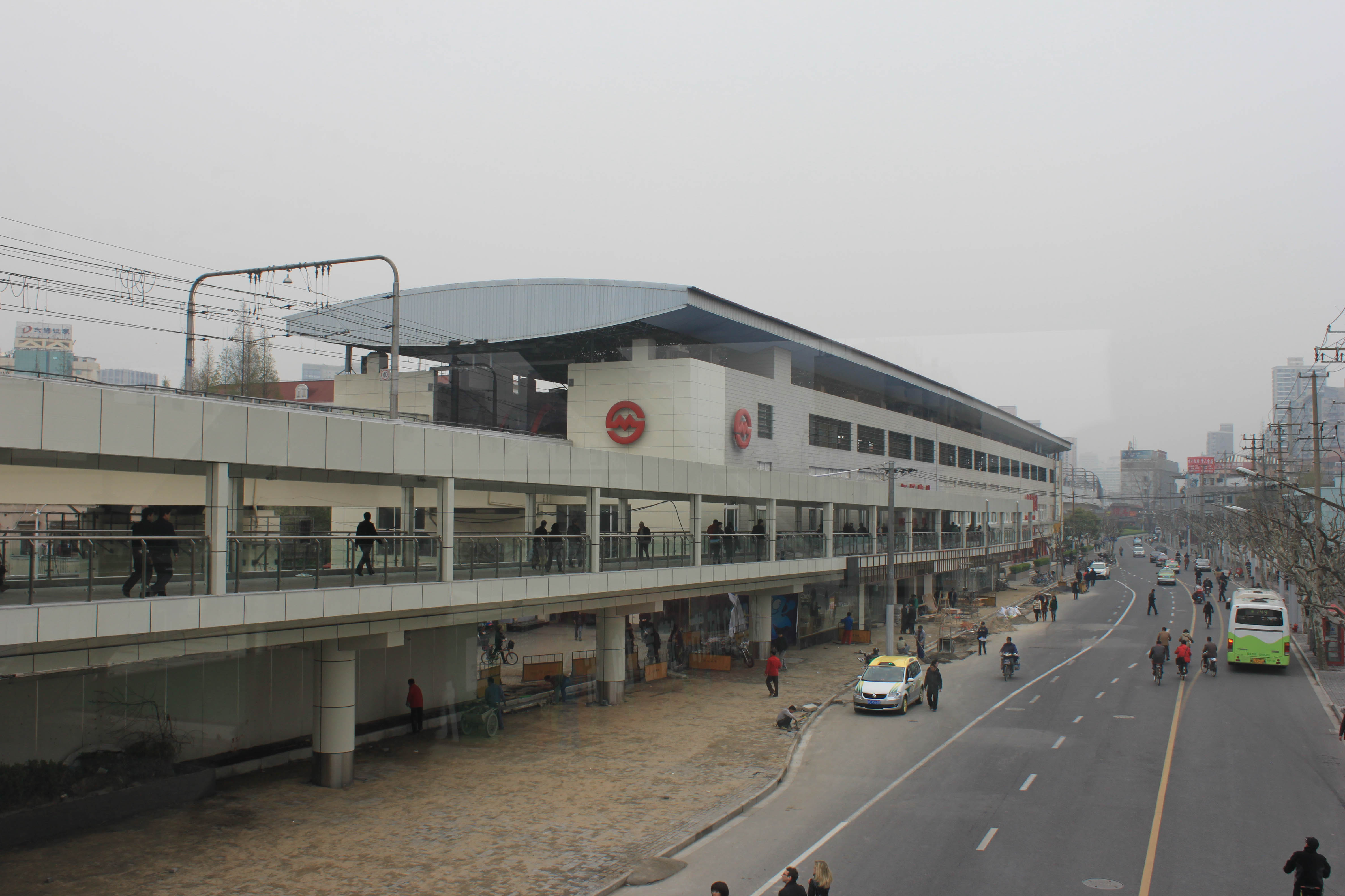 Hong Qiao Road Station